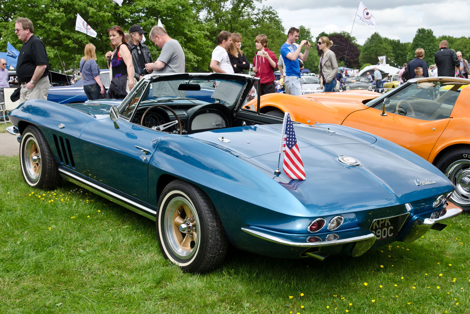 Trentham Gardens Classic Car Show 16/06/2013